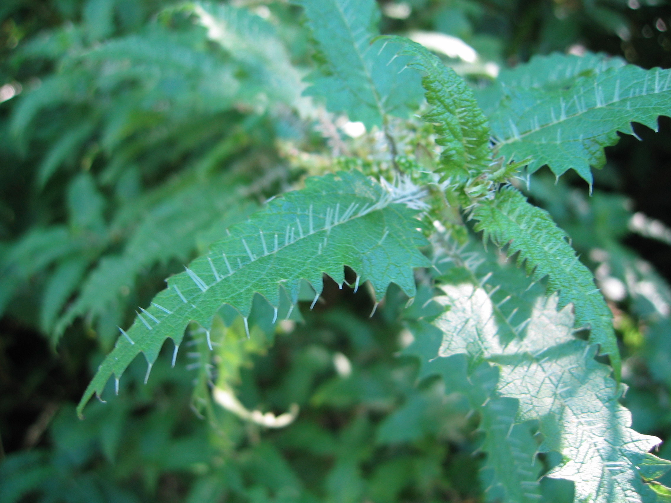 Close-up of ongaonga leaves and hairs. Photo taken 5 March 2004 below Kenepuru Saddle, Queen Charlotte Walkway, Marlborough Sounds, New Zealand. Ongaonga (Urtica ferox) is a New Zealand tree nettle. Skin contact with the hairs is very painful. (I'm speaking from experience, unfortunately.) The toxins they release can reportedly lead to convulsions and death. The hairs shown in this photo were up to 5 mm in length.